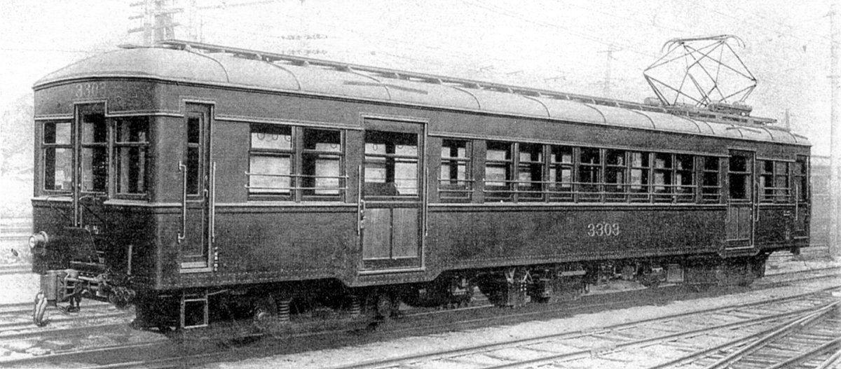 Aichi Electric Railway Type DEHA 3300 EMU No.3303